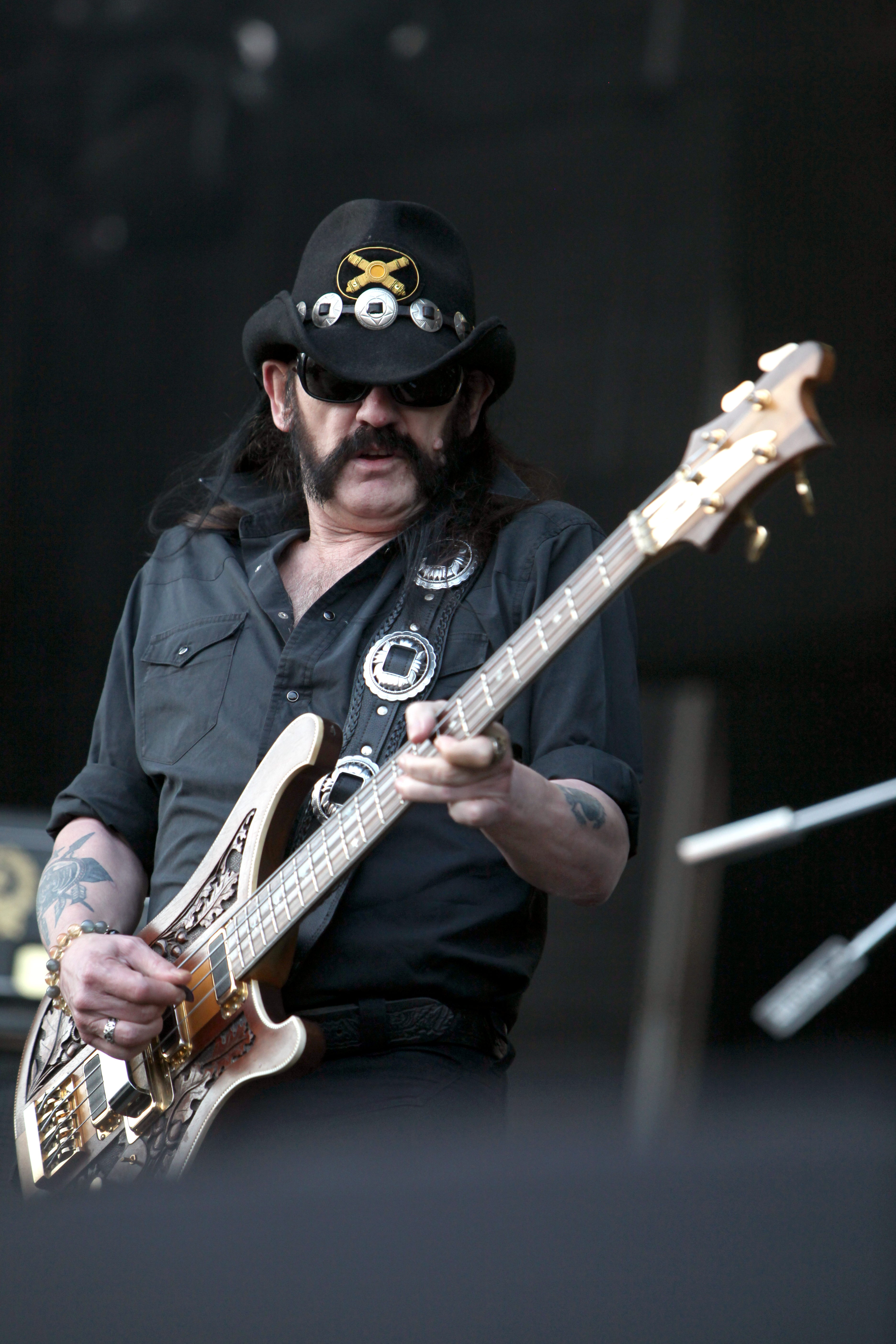 Motörhead at the Eurockéennes de Belfort 2011 The making of this document was supported by Wikimedia CH. (Submit your project!) For all the files concerned, please see the category Supported by Wikimedia CH.